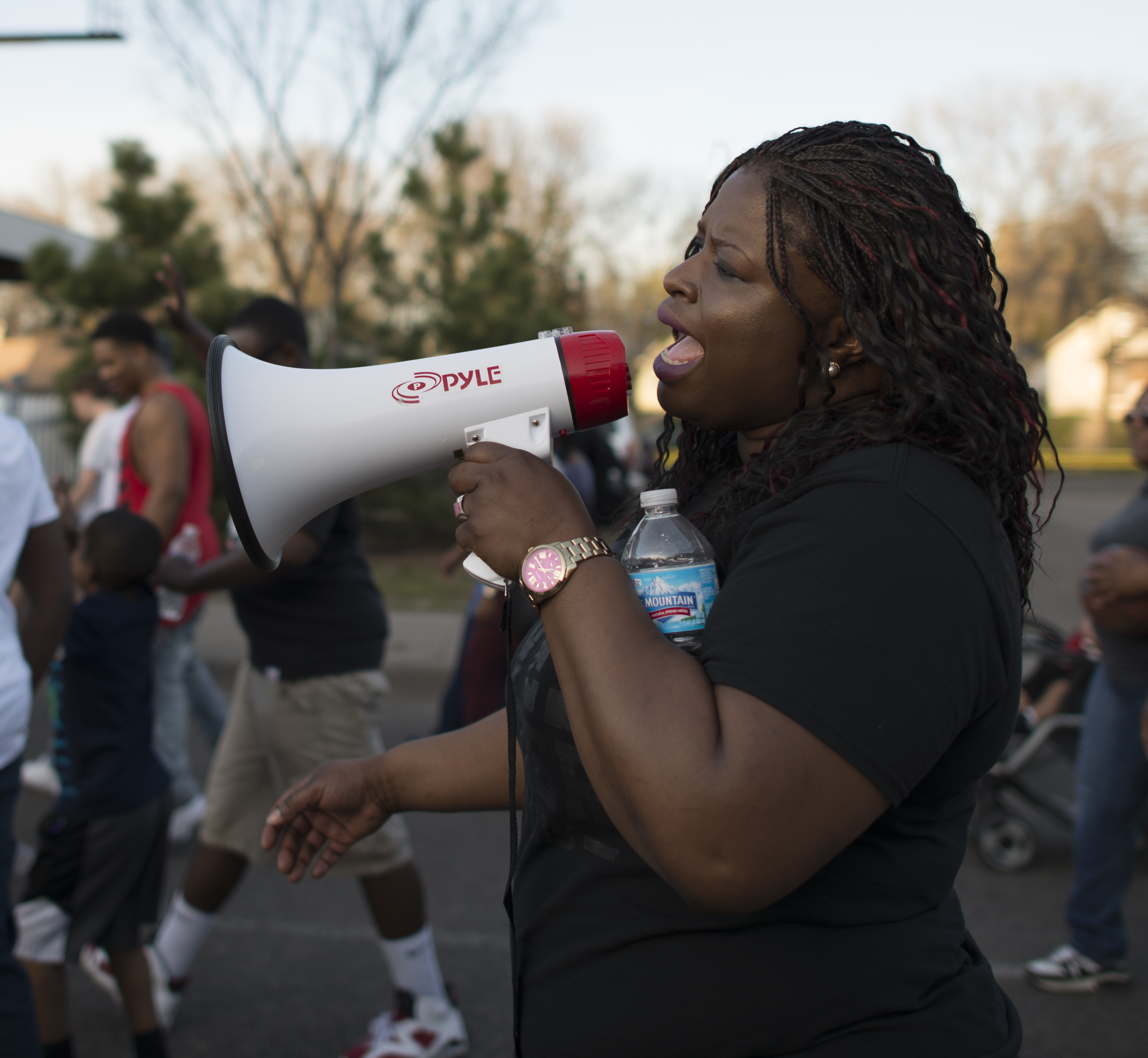 American lawyer, activist, writer, professor, and preacher Nekima Levy-Pounds at a Minneapolis Black Lives Matter march.